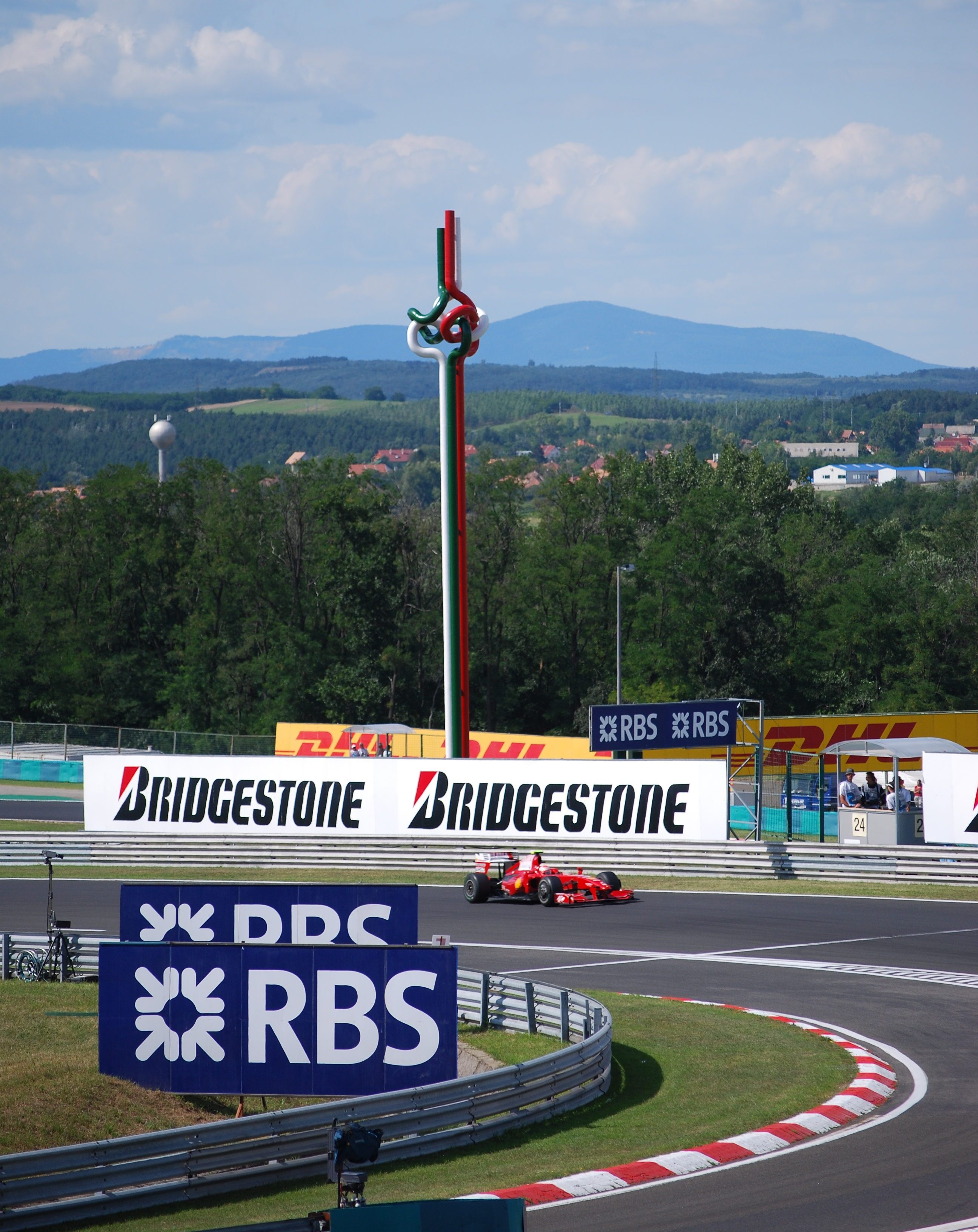 Kimi Räikkönen during 2009 Hungarian Grand Prix.